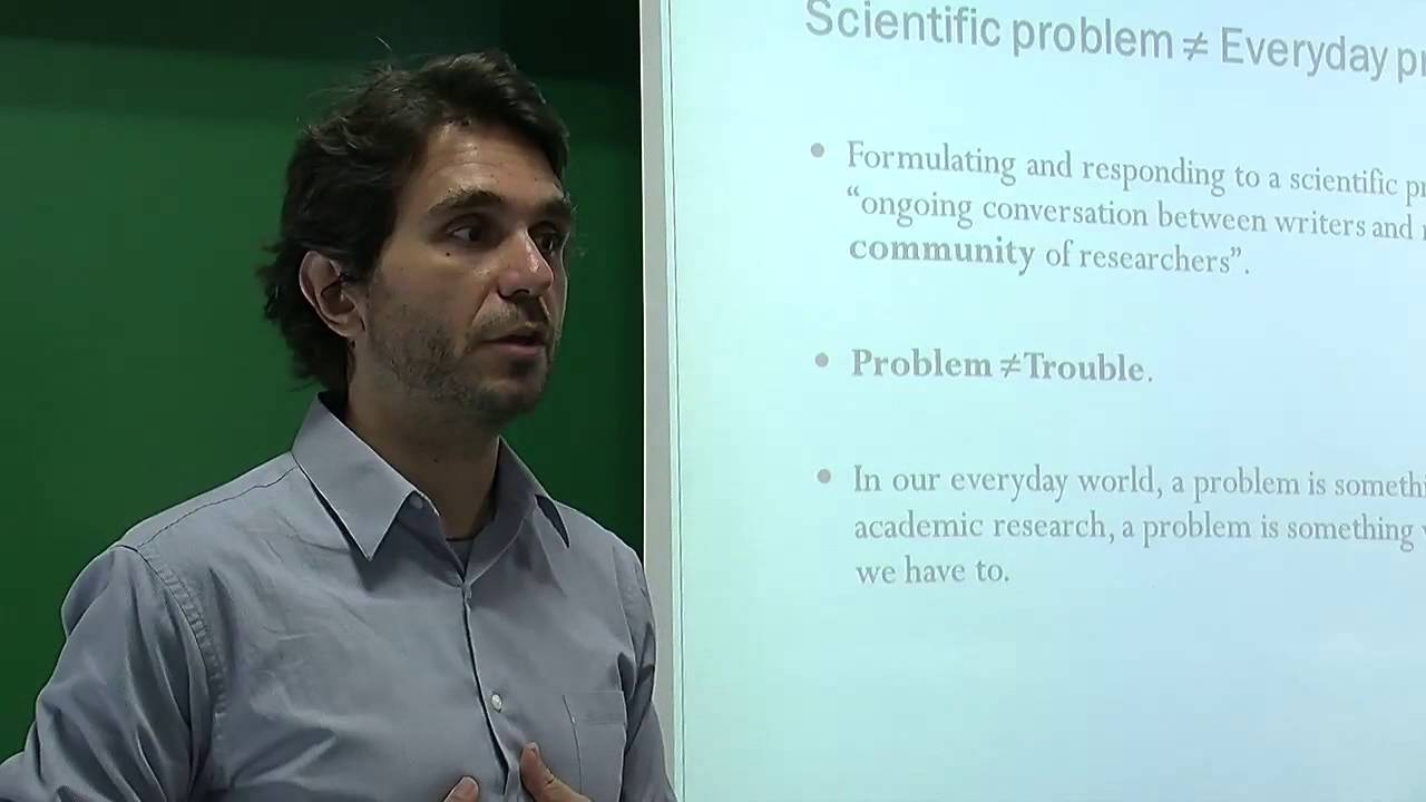 Giorgos Kallis teaching a class.